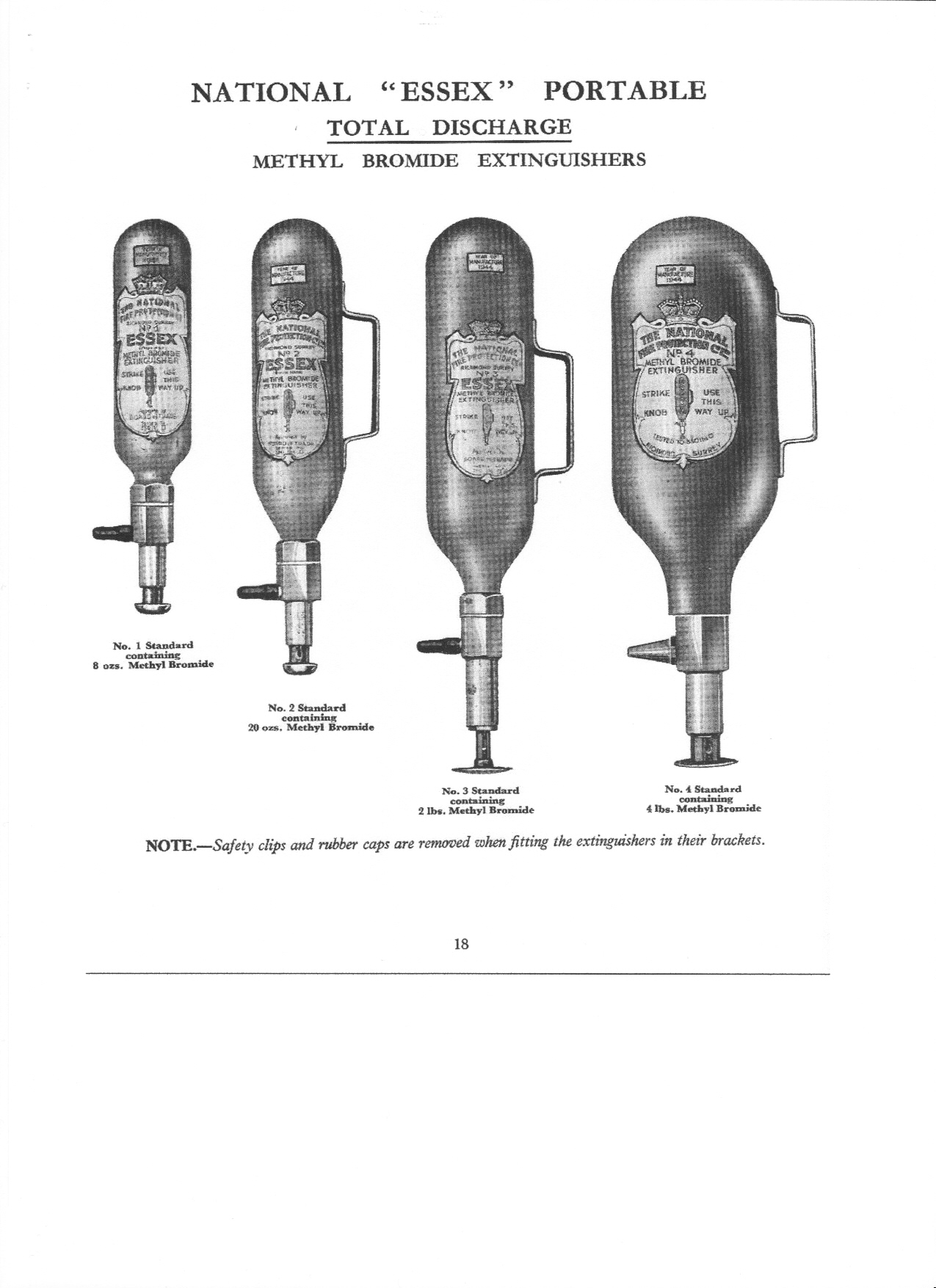 Methyl Bromide Extinguishers in a 1930s-40s catolog.